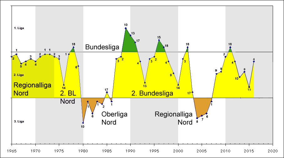 End results of soccer team FC St.Pauli, Hamburg, Germany